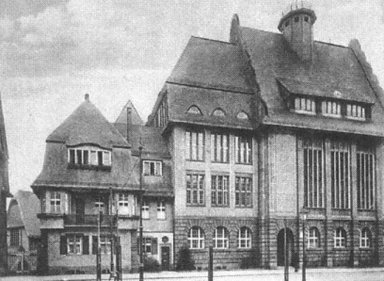 Schillerschule of Frankfurt am Main, Hesse, Germany, an institution of higher education for girls. Picture of 1908.